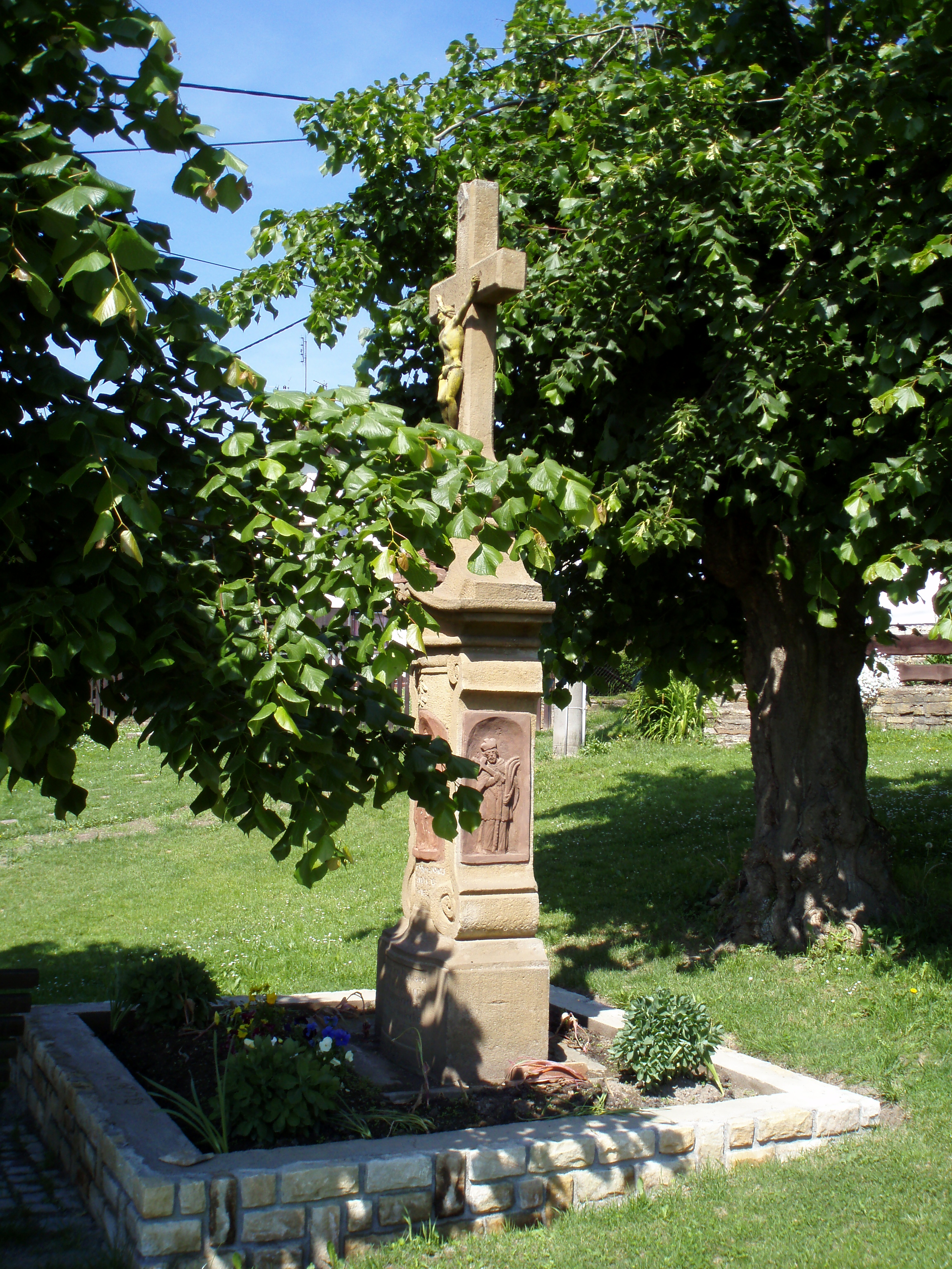 Sandstone cross in Vestec (District of Náchod, Czech republic) Česky: Pískovcový kříž ve Vestci na okrese Náchod